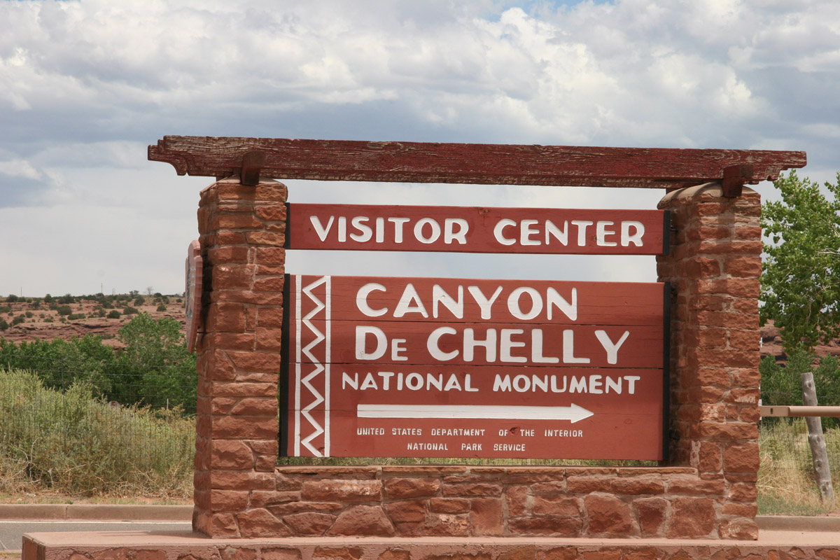 Visitor Center Sign of the Canyon de Chelly National Monument